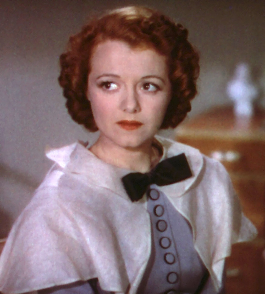 Cropped screenshot of Janet Gaynor from the film A Star is Born. Costume designed by Omar Kiam